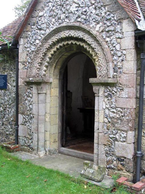 St Mary Magdalene, Tortington, Sussex - Porch